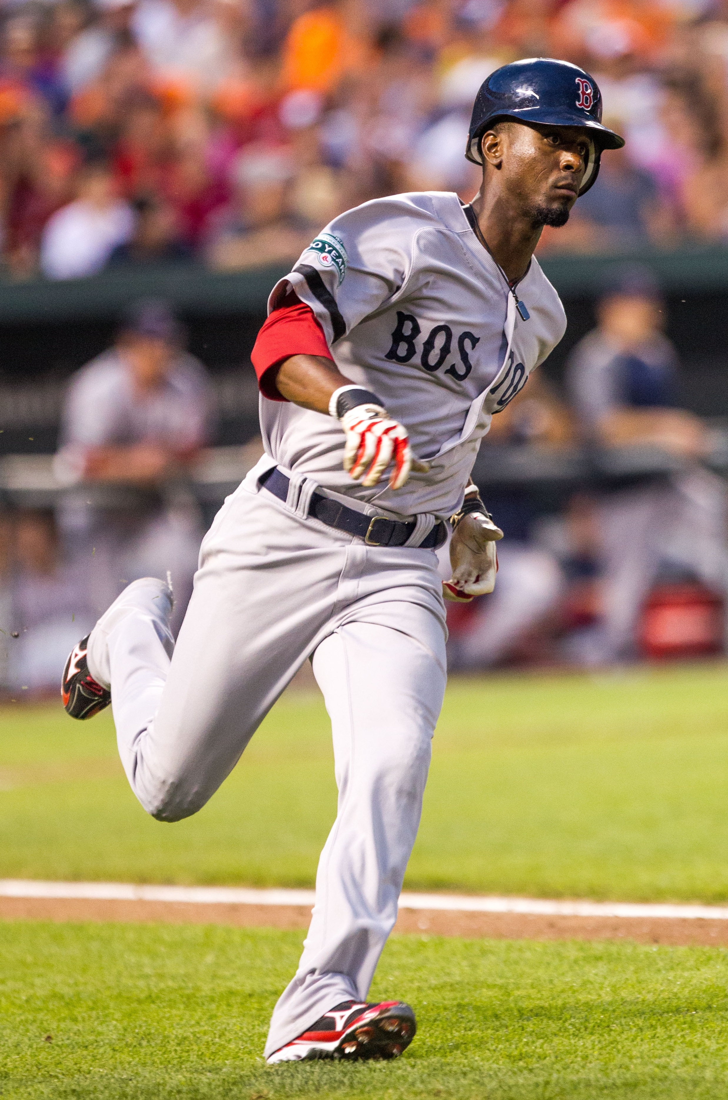 Boston Red Sox shortstop Pedro Ciriaco – Boston Red Sox at Baltimore Orioles August 14, 2012